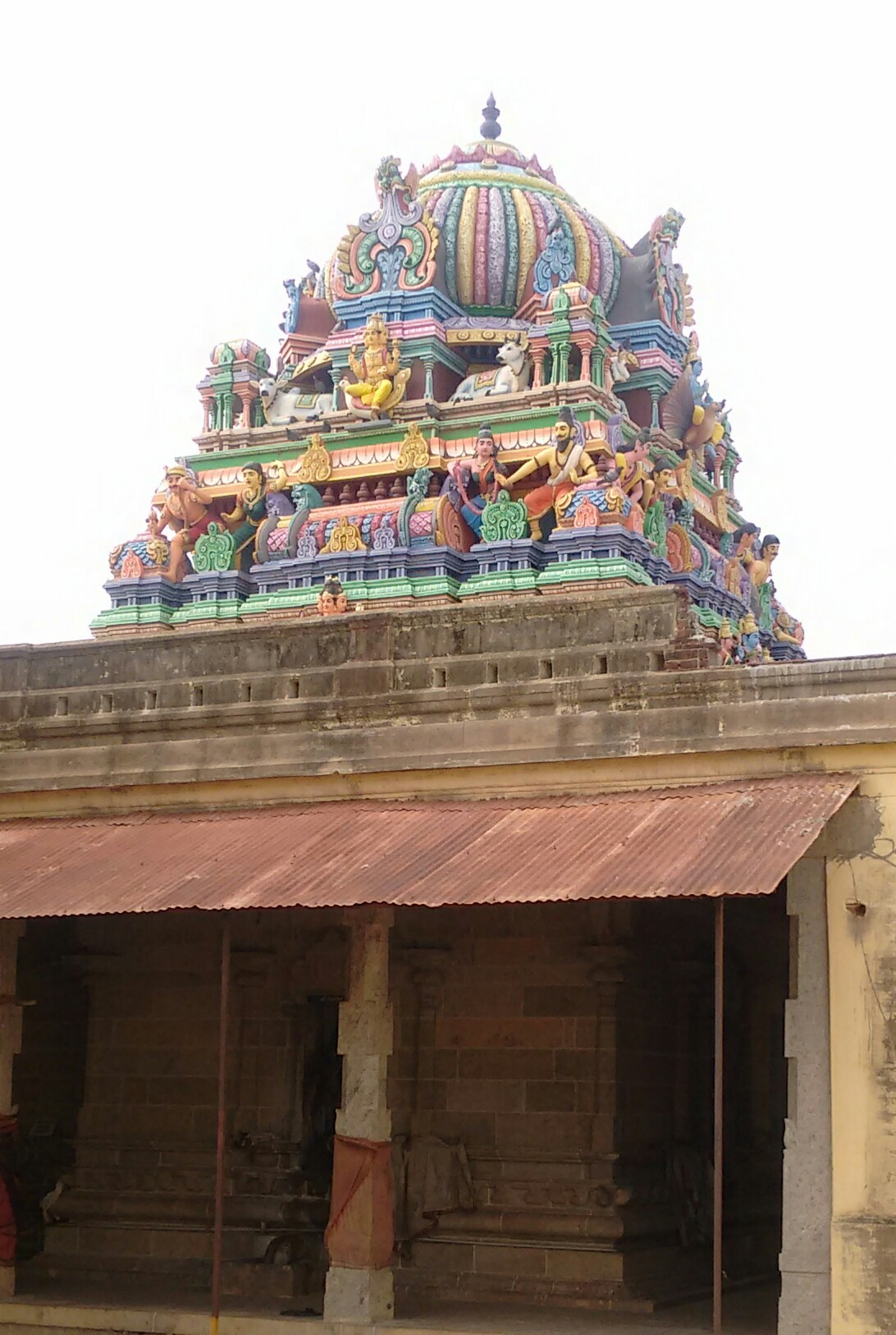 Sivapuramsivagurunathasamytemple சிவபுரம் சிவகுருநாதசுவாமிகோயில்